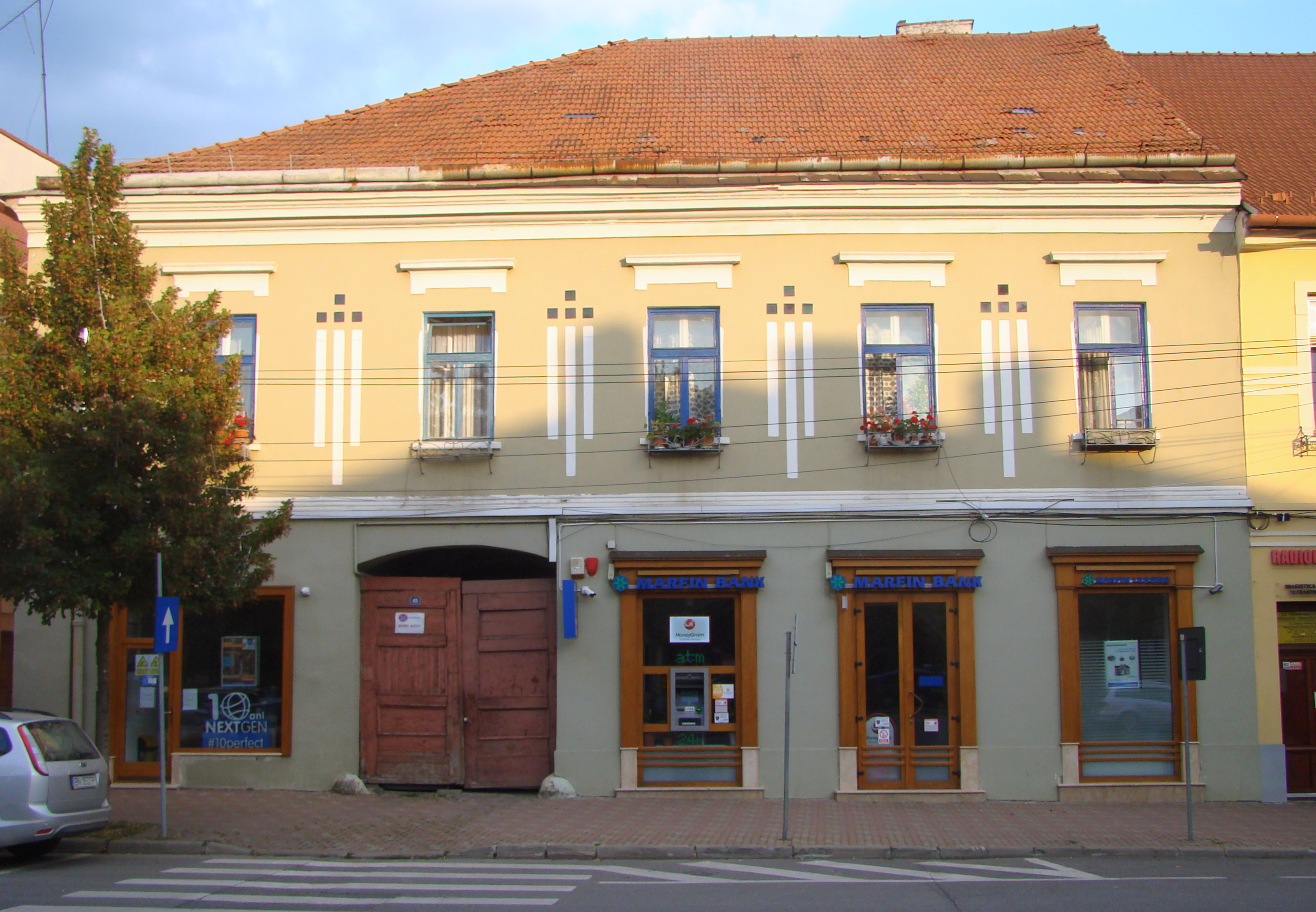 House, historic monument, in Bistrița, Piața Centrală 45